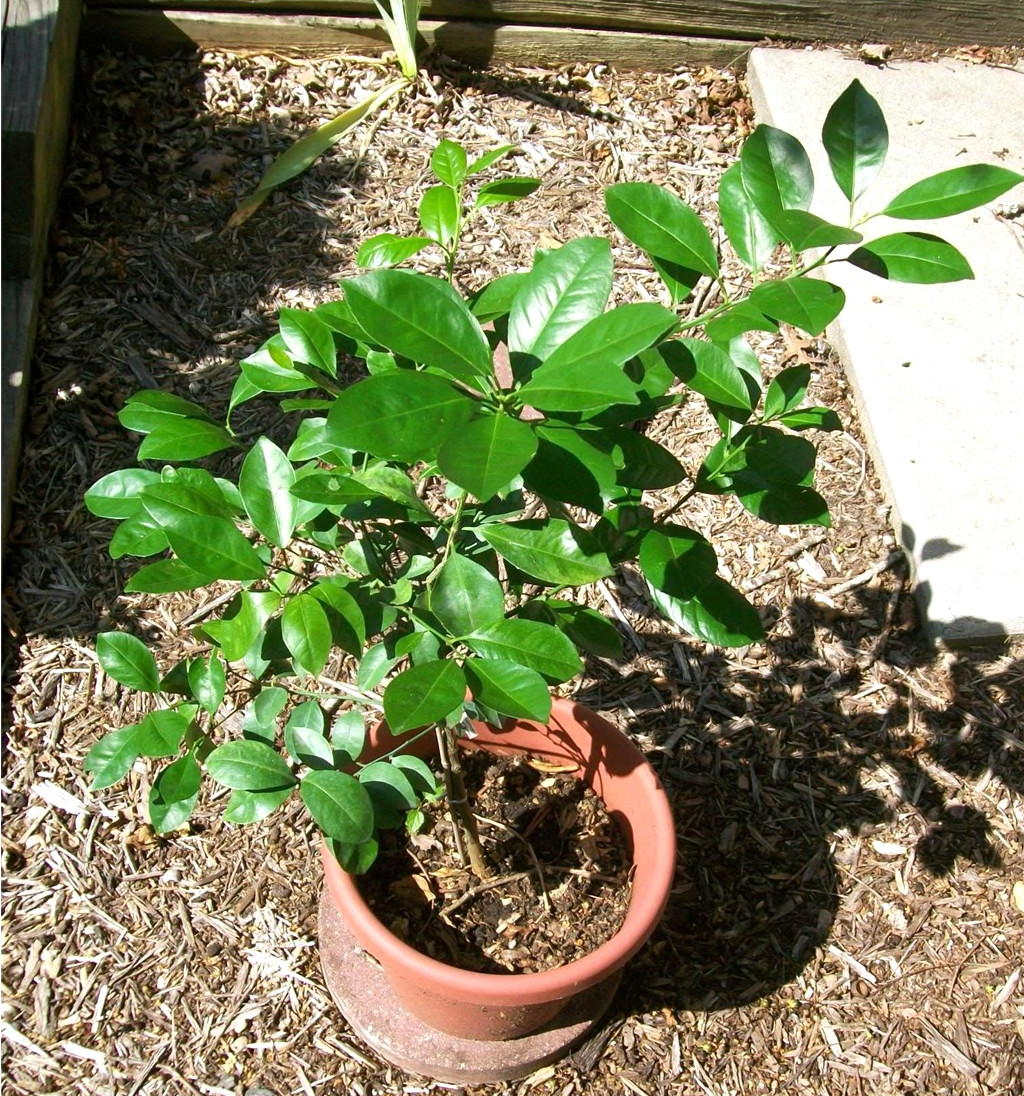 4 year old calamondin, Chapel Hill, North Carolina